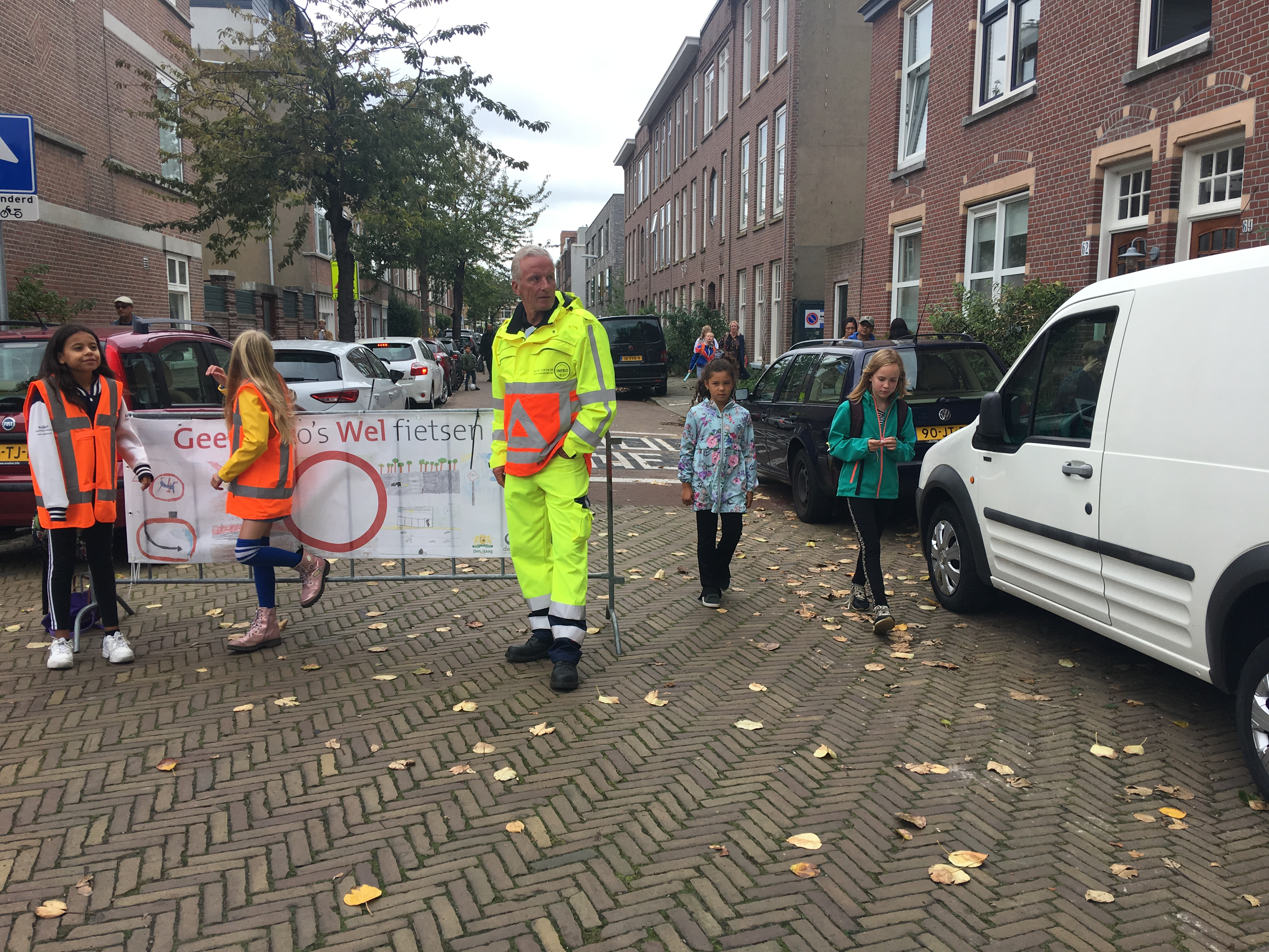 carfree schoolarea